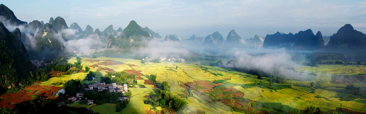 Idyllically landscapes in Daxin county